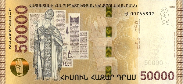 50000 dram 2018 Obverse